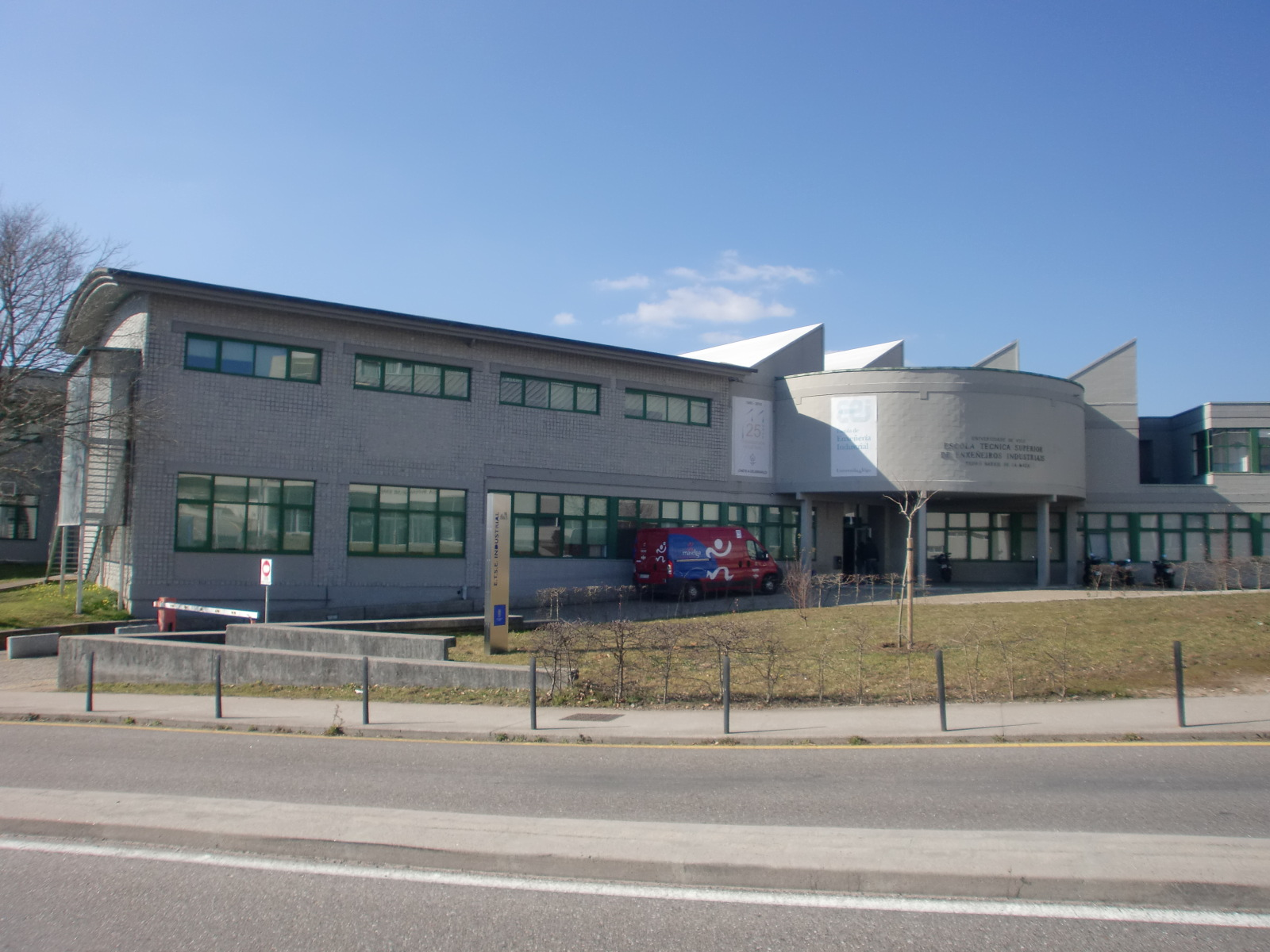 Industry High School (Vigo University)